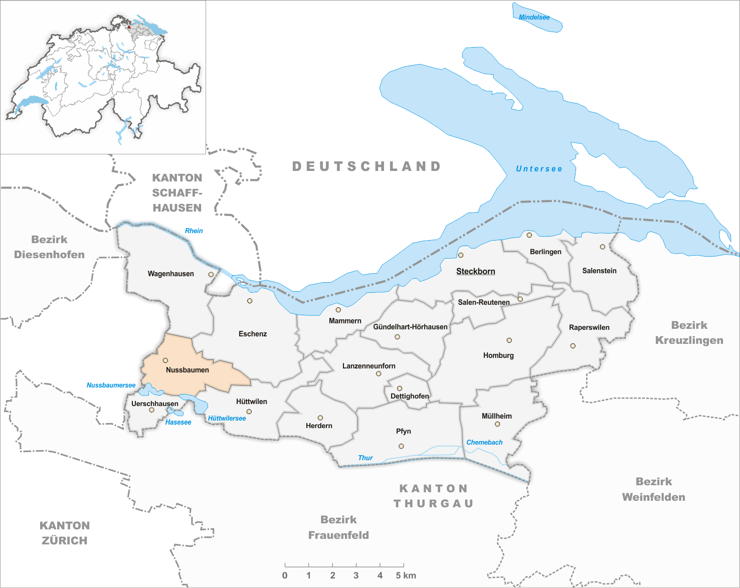 Municipality Nussbaumen